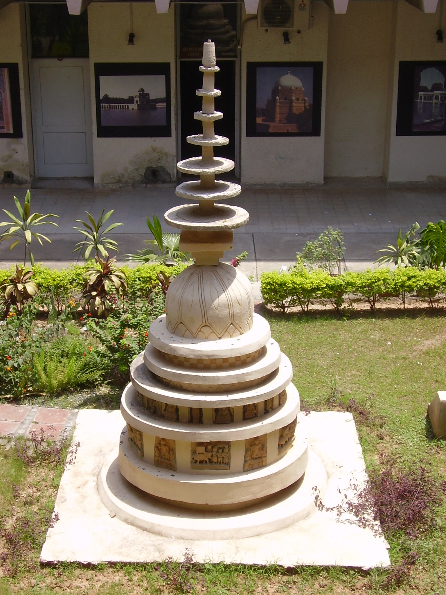 Stupa in Taxila Institute of Asian Civilizations (TIAC),Quaid i Azam University Campus — Islamabad.